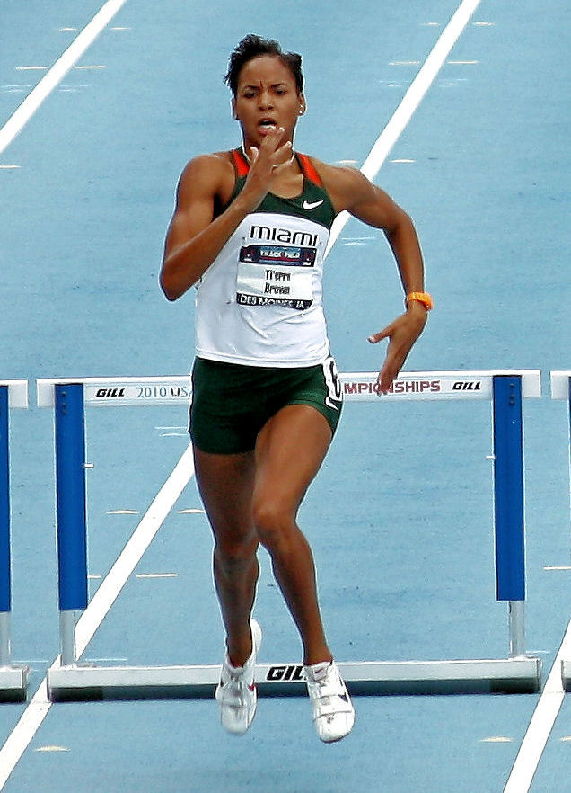 The women's 400m hurdles race heads down the home stretch.